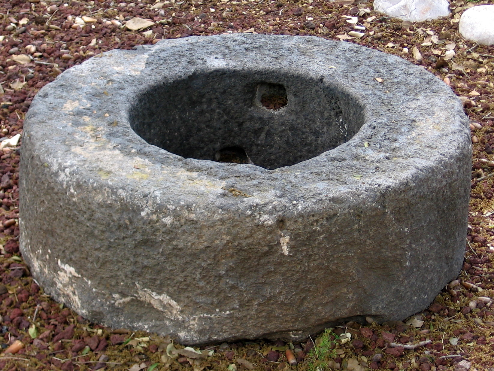 Stone bazalt anchor from the Sea of Galilee